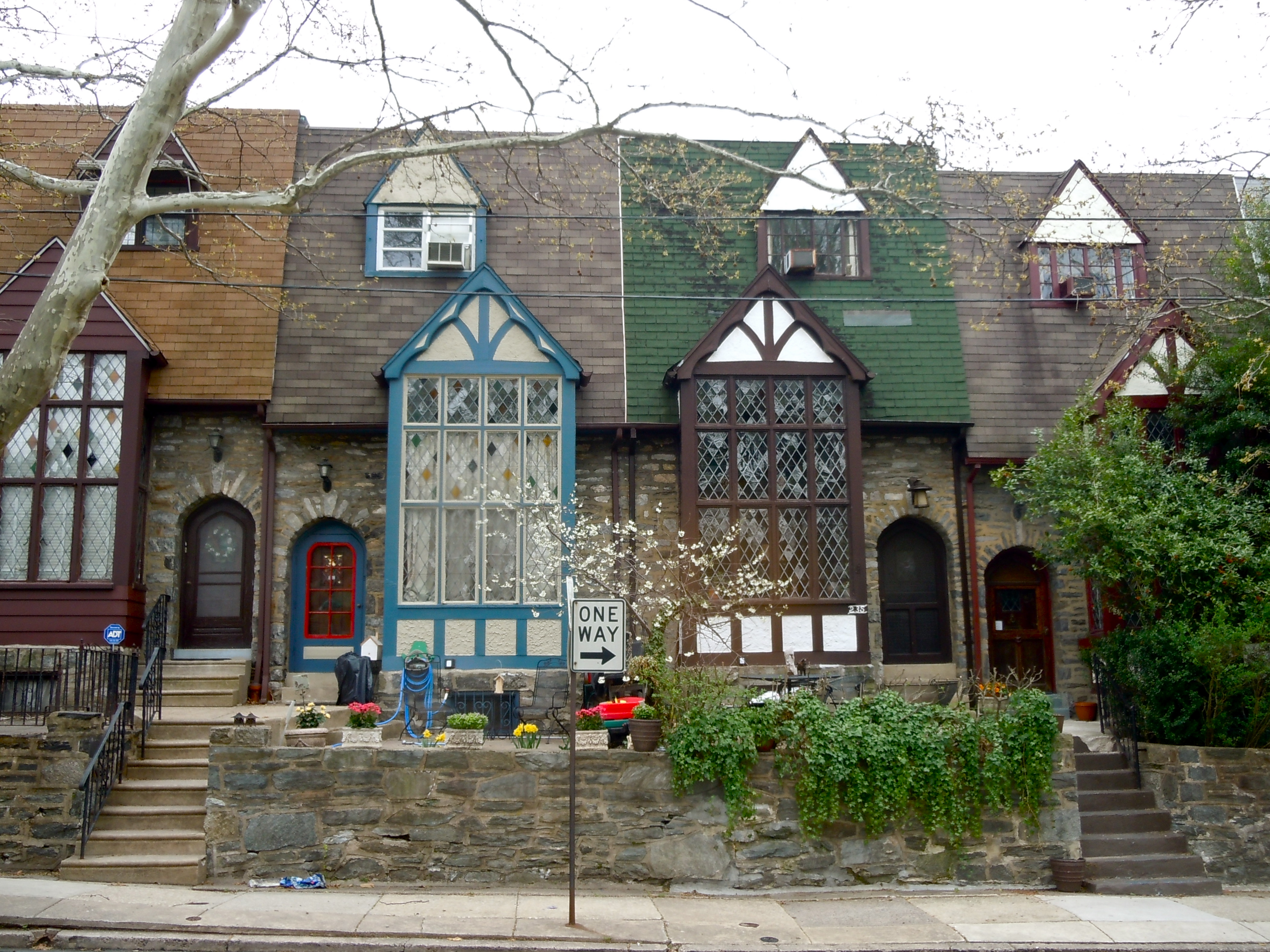 Striking row houses in Upper Darby, Pennsylvania - 200 block of Richfield Road